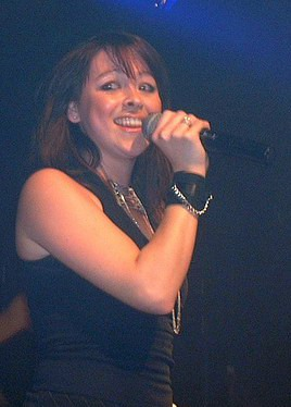 Lisa Scott-Lee performing at The Junction, Cambridge in 2004